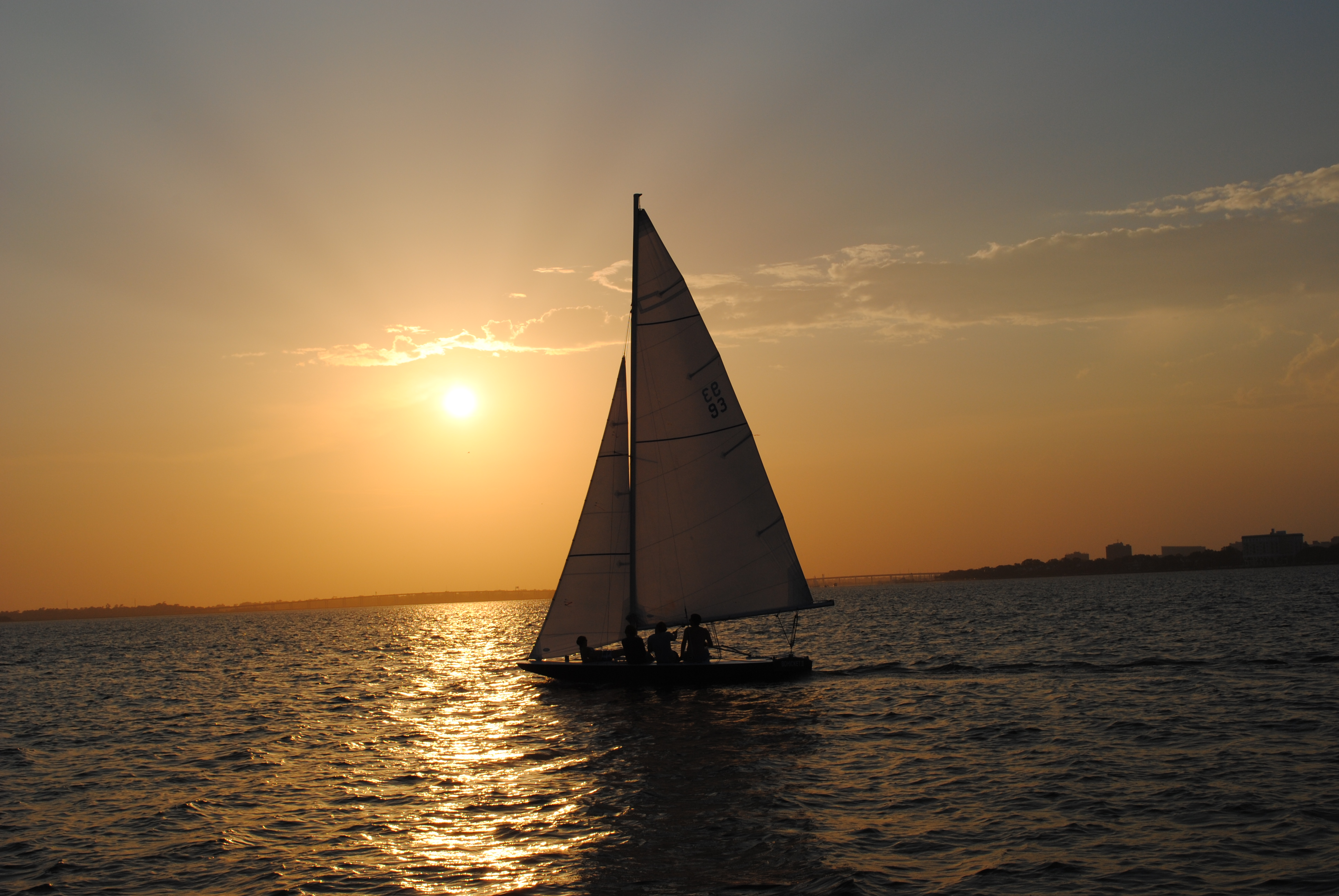 The Sea Island One Design "Bohicket II" takes a sunset cruise in Charleston, S.C.